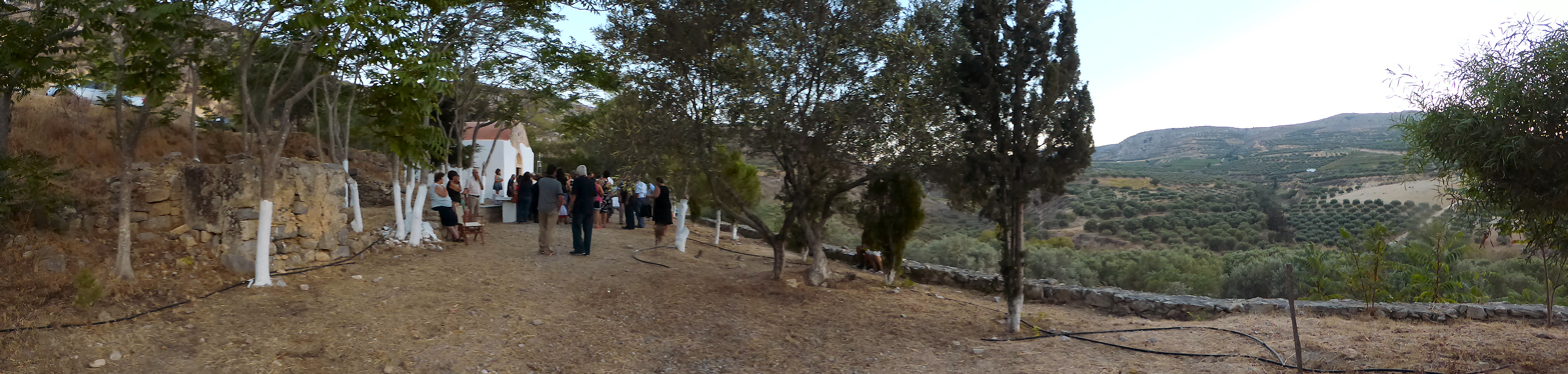 Pezetis, St. John The Babtist Monastery